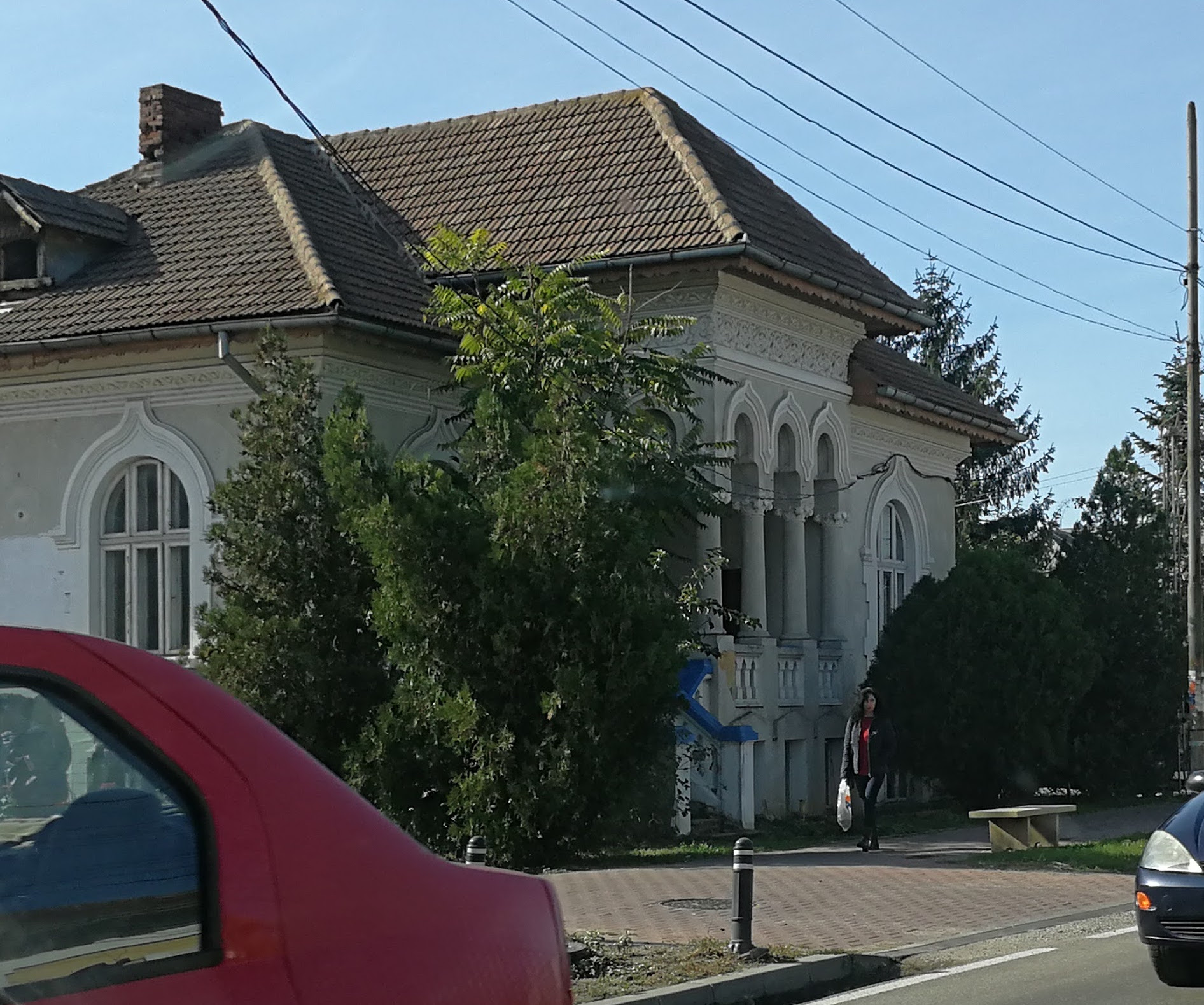 Historic building in Balș, Olt County, Romania